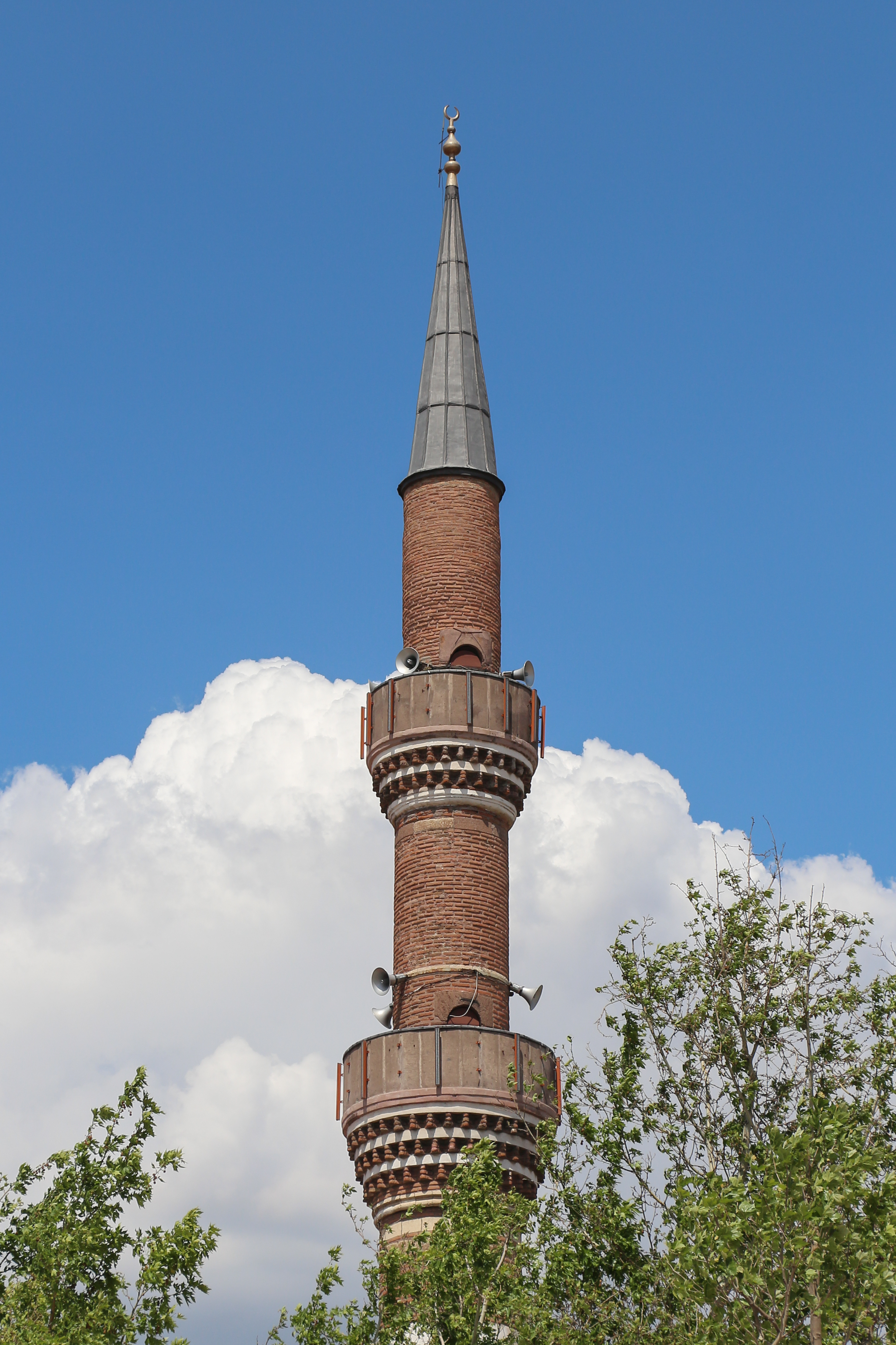 Minaret of the Haci Bayram Mosque, Ankara